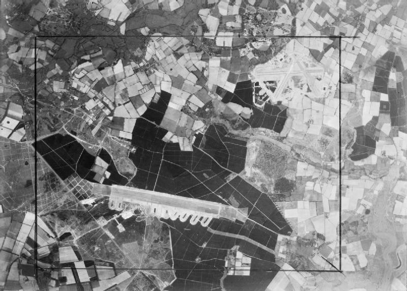 IWM caption : Woodbridge ELG (lower left) was specially built as the first of three Bomber Command emergency runways for damaged allied aircraft returning from operations over Europe. It was opened in No. 3 Group, Bomber Command, on 15 November 1943 and was administered as a satellite of RAF Bentwaters (upper right). Dispersal loops, onto which crashed bombers were taken and serviceable aircraft parked, adjoin the south side of the single large runway (3,000 yards long x 250 yards wide).